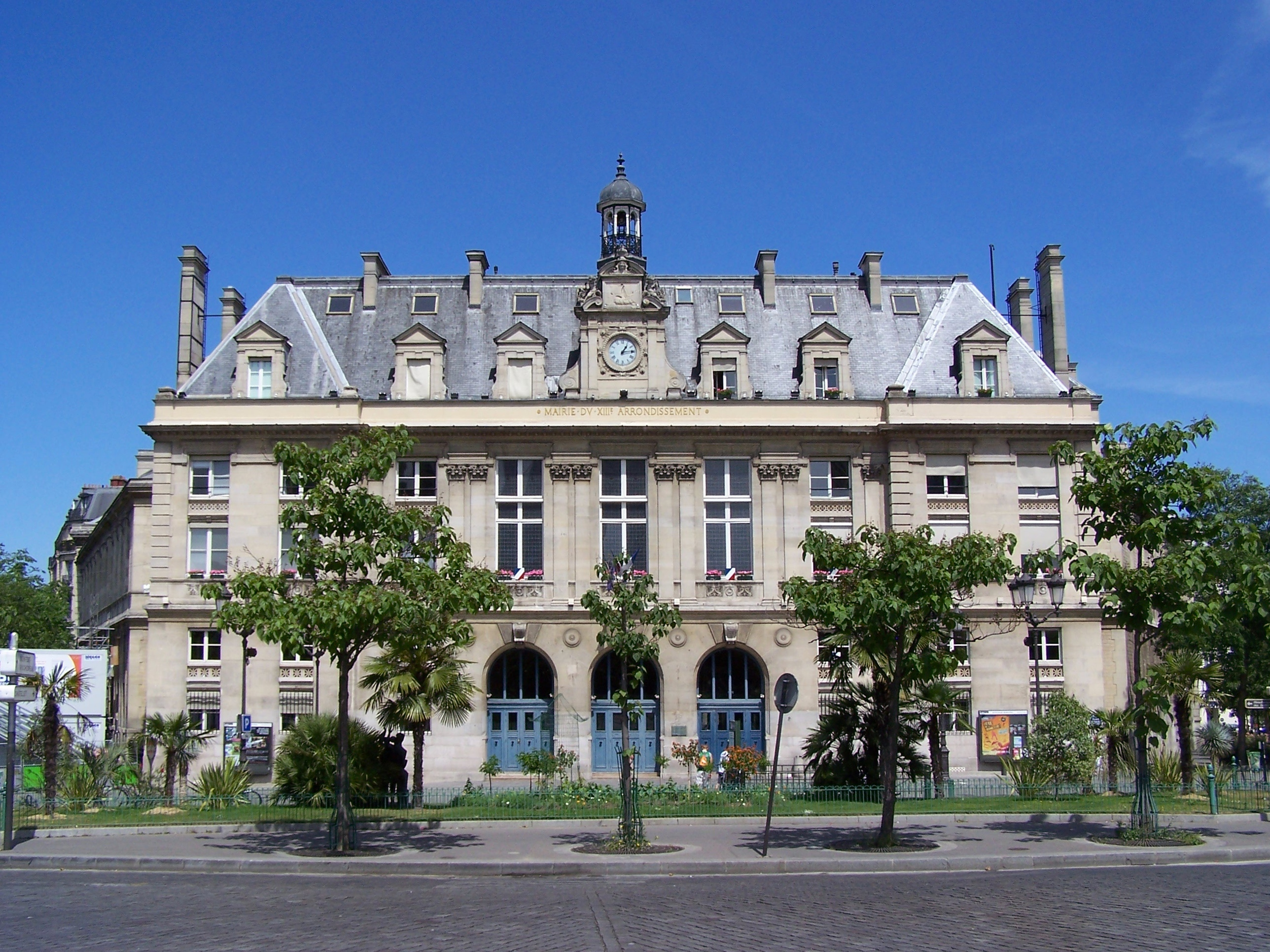 General view of the cityhall of the 13e arrondissement in Paris from the place d'Italie